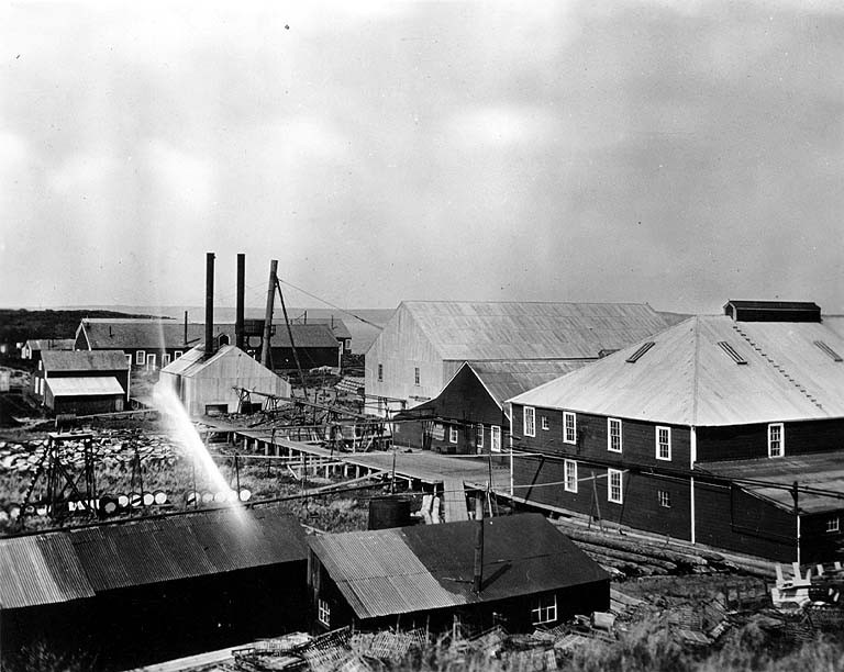 From John Cobb field notebook: A.P.A. Igegak cannery Subjects (LCSH): Alaska Packers Association; Salmon canning industry--Alaska--Egegik; Canneries--Alaska--Egegik